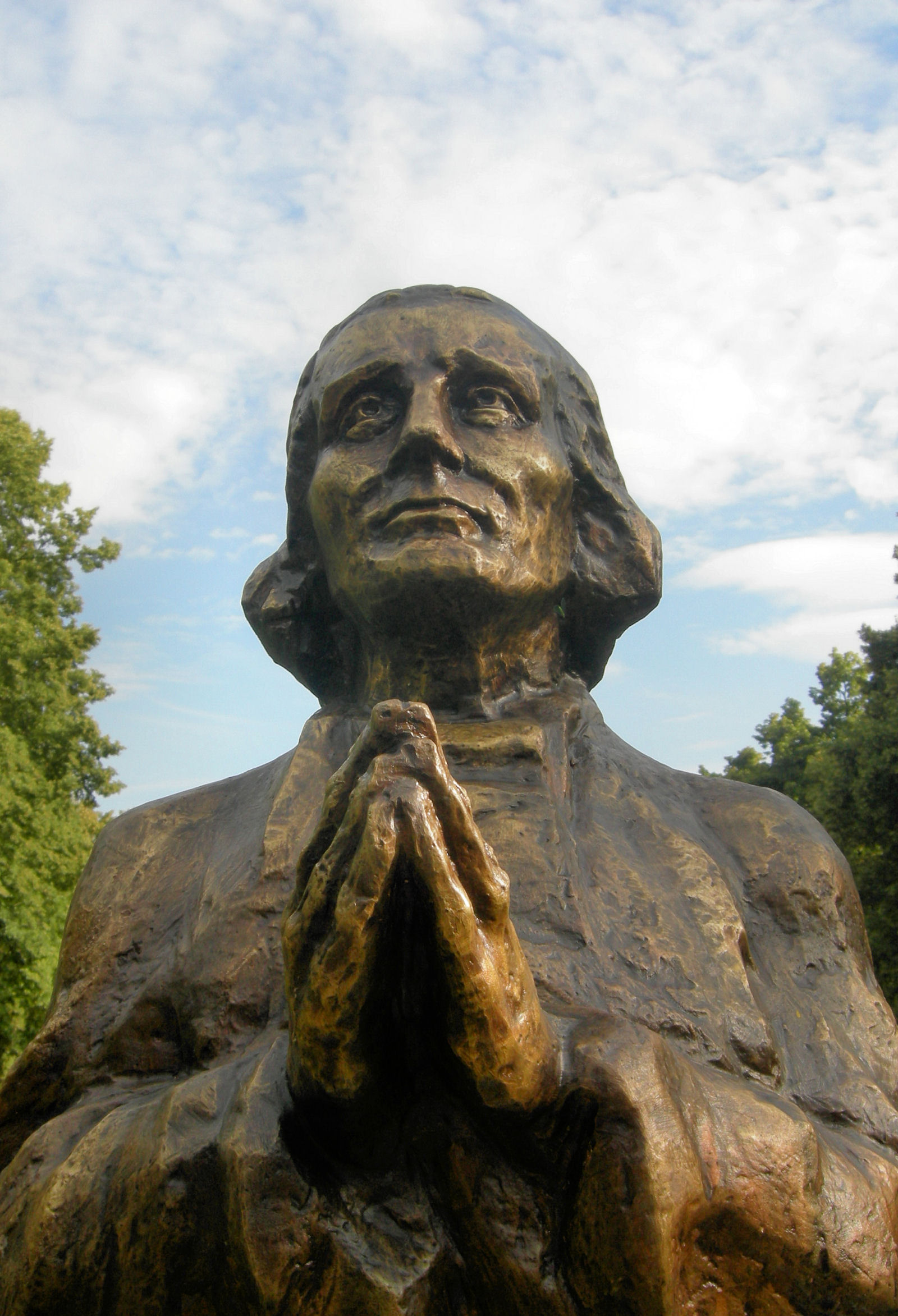 Monument of Jean Vianney, Poznań, Poland